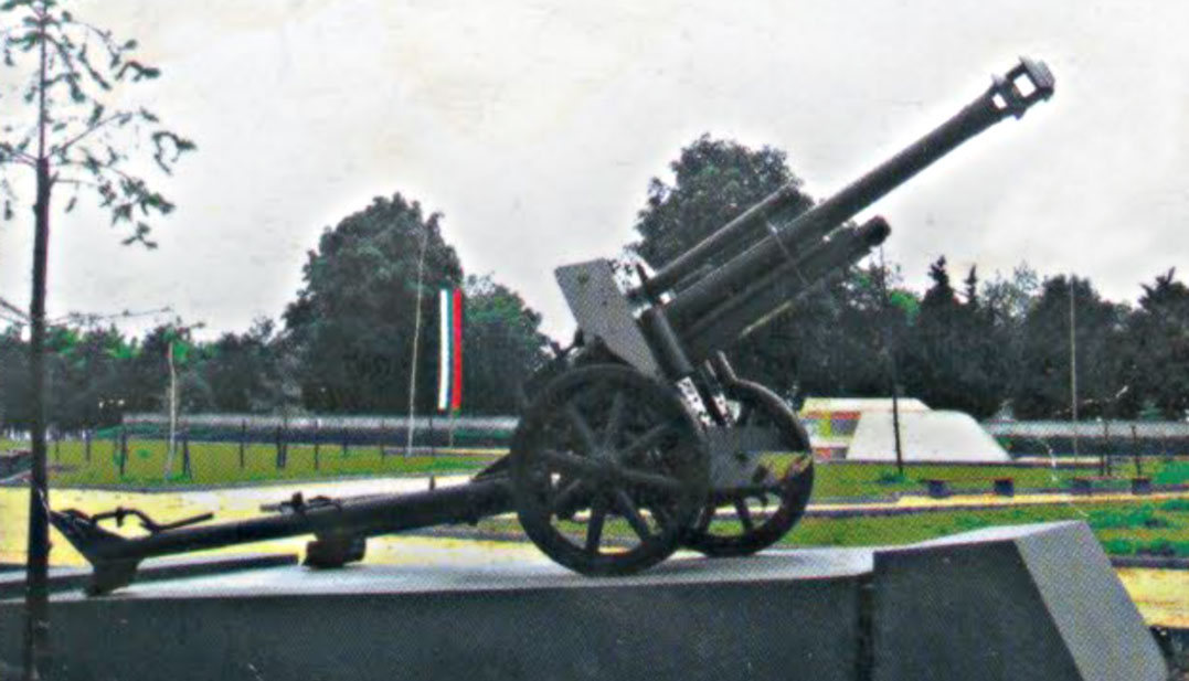 105mm Howitzer used in the Battle of Turtucaia